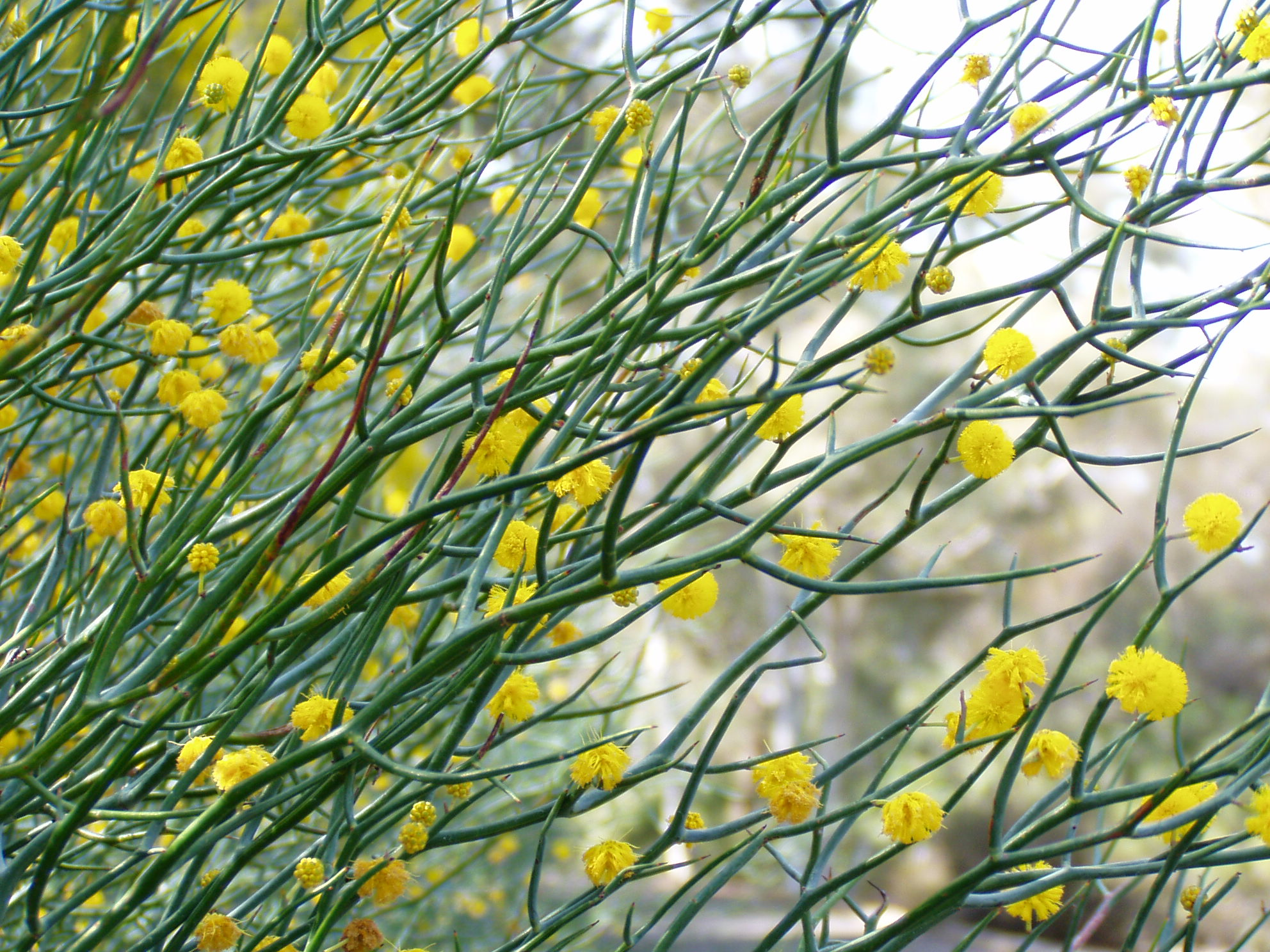 Description: Leafless Rock Wattle (Acacia aphylla) Location: Australian National Botanic Gardens, Canberra, Australian Capital Territory, Australia Date: 2005-09-21 Source: picture taken by Danielle Langlois Licence: Released under GFDL and Creative Commons licenses by the photographer